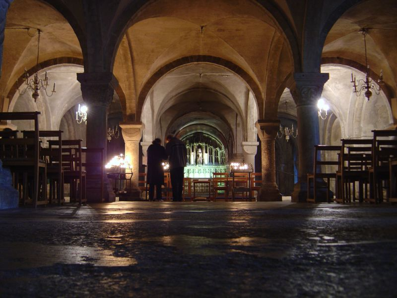 The crypt at Canterbury CathedralCanterbury Cathedral Crypt